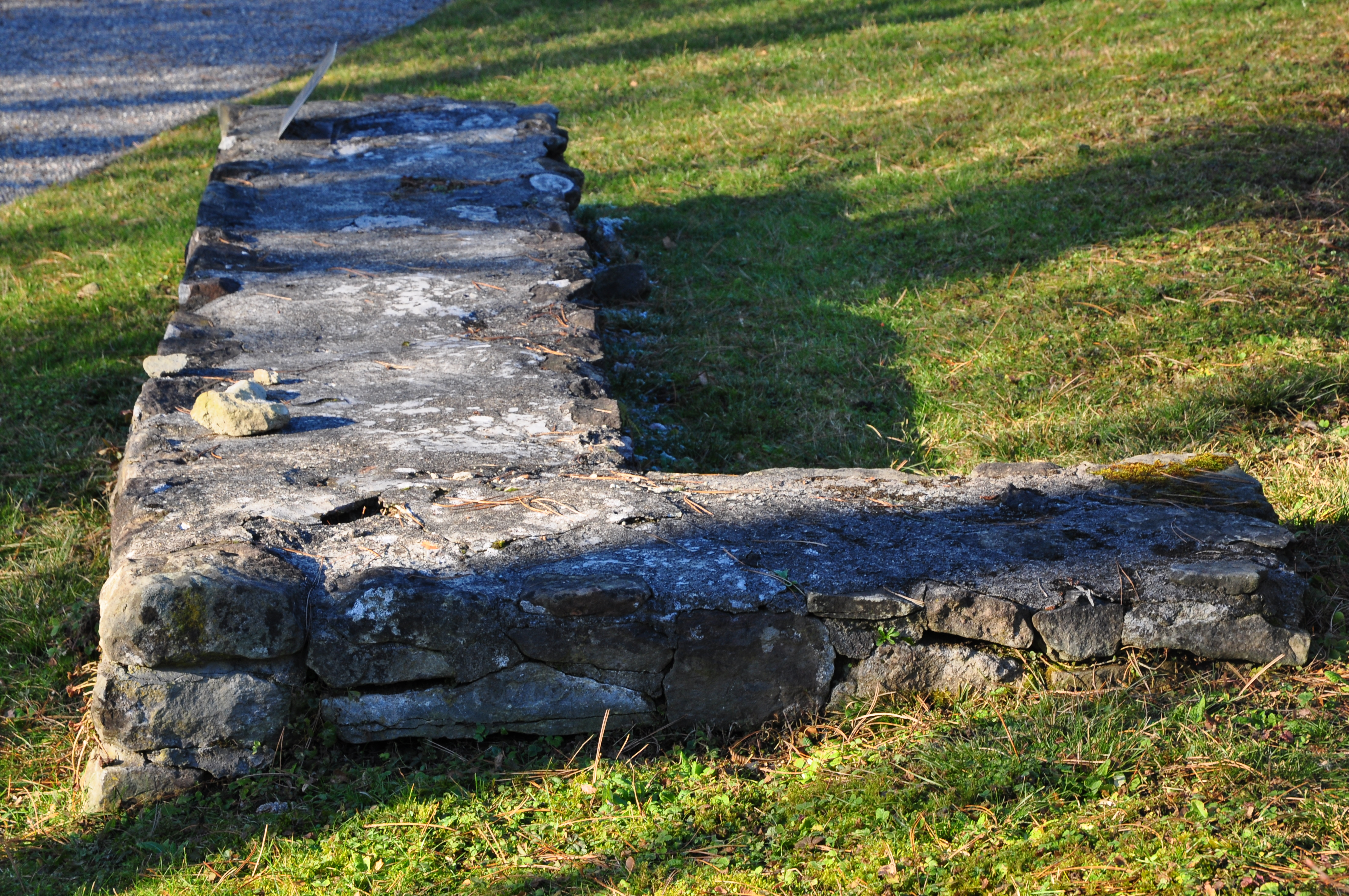 3rd century AD Roman walls of the former Roman vicus Centum Prata at Kapelle St. Ursula in Kempraten respectively Rapperswil (Switzerland)